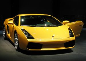 2004 Lamborghini Gallardo on display at the 2004 North American International Auto Show in Detroit.